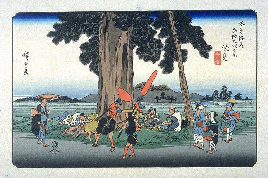 Fushimi on the Kisokaido, ukiyo-e prints by Hiroshige